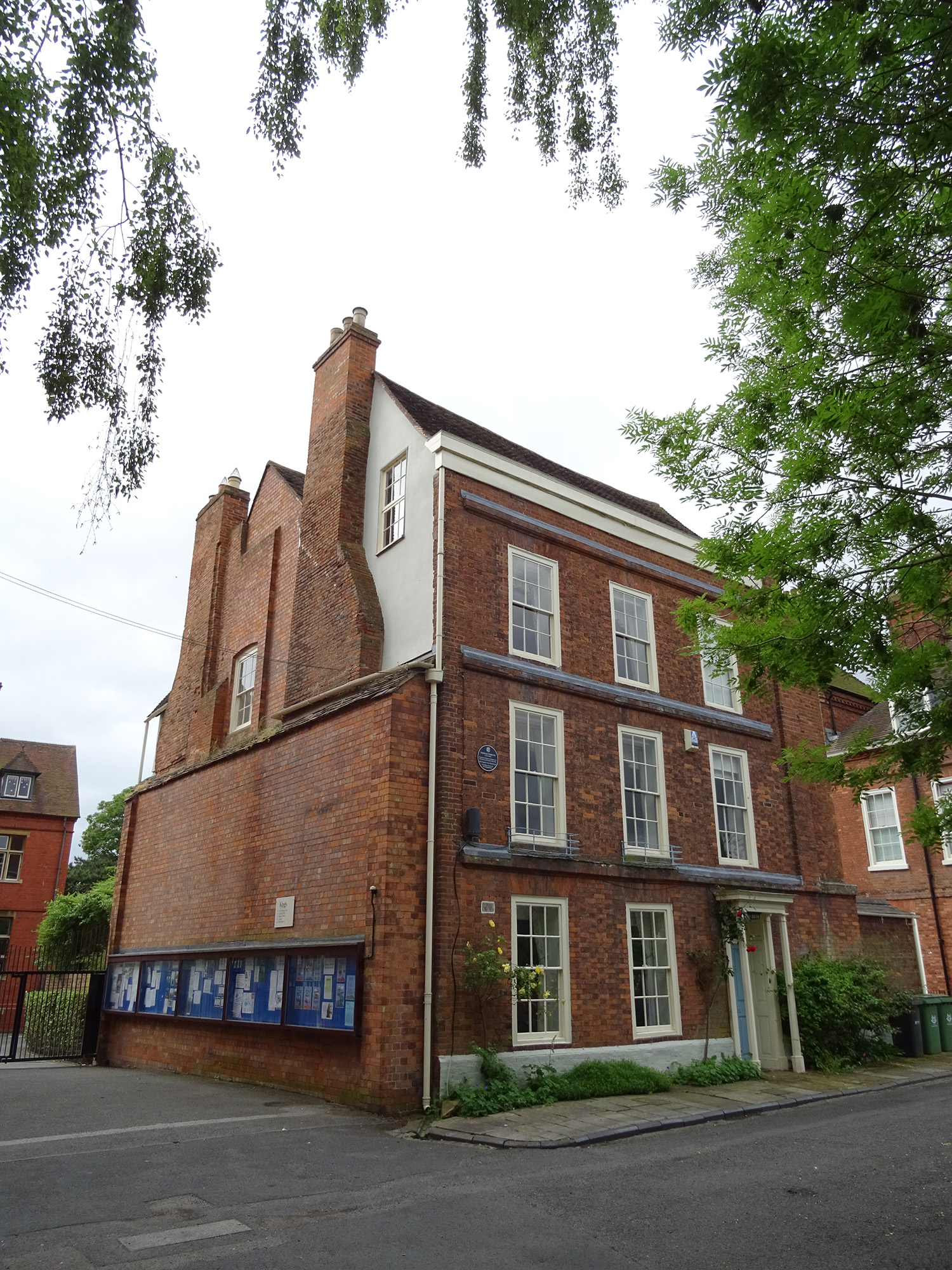 "Thomas Tomkins (1572-1656) Composer, Organist and Master of Choristers at Worcester Cathedral Also Organist of the Chapel Royal Lived here and also at 2/3 College Green" - 9 College Green, Worcester WR1 2LH